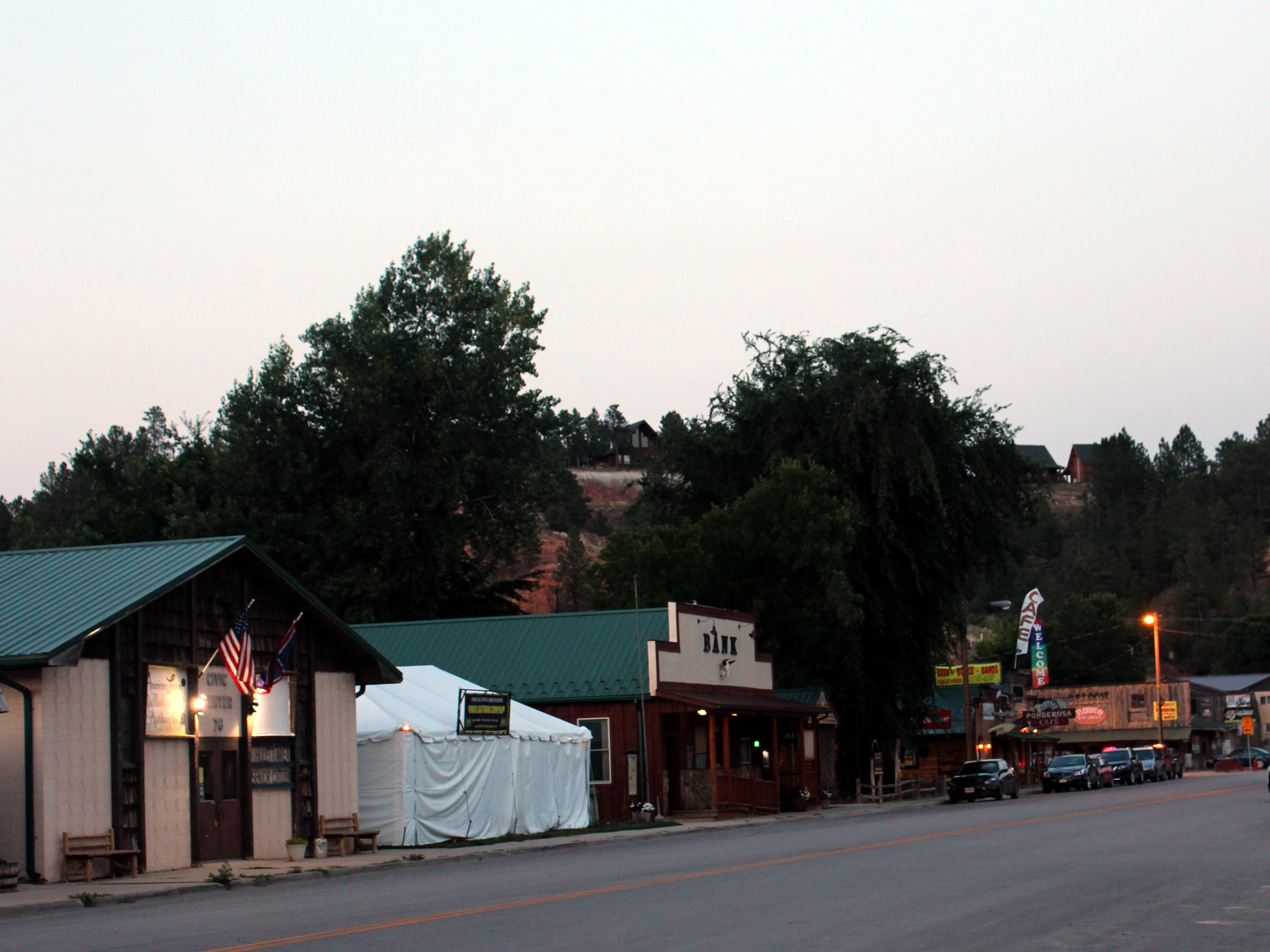 Main Street (Wyoming Highway 24) in Hulett, Wyoming, USA